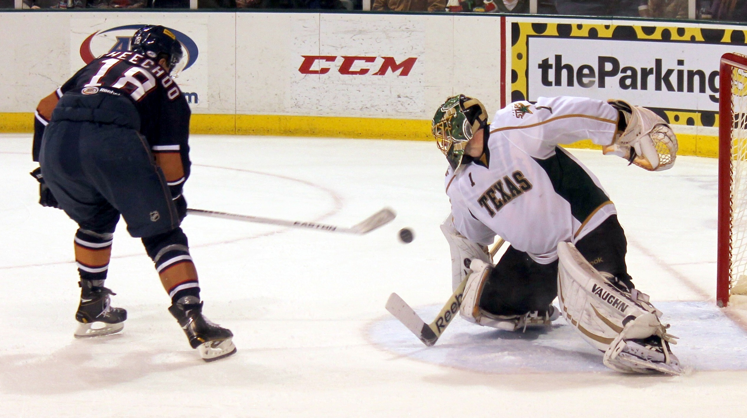 Goaltender Jack Campbell of the Texas Stars makes a save against Jonathan Cheechoo of the Oklahoma City Barons